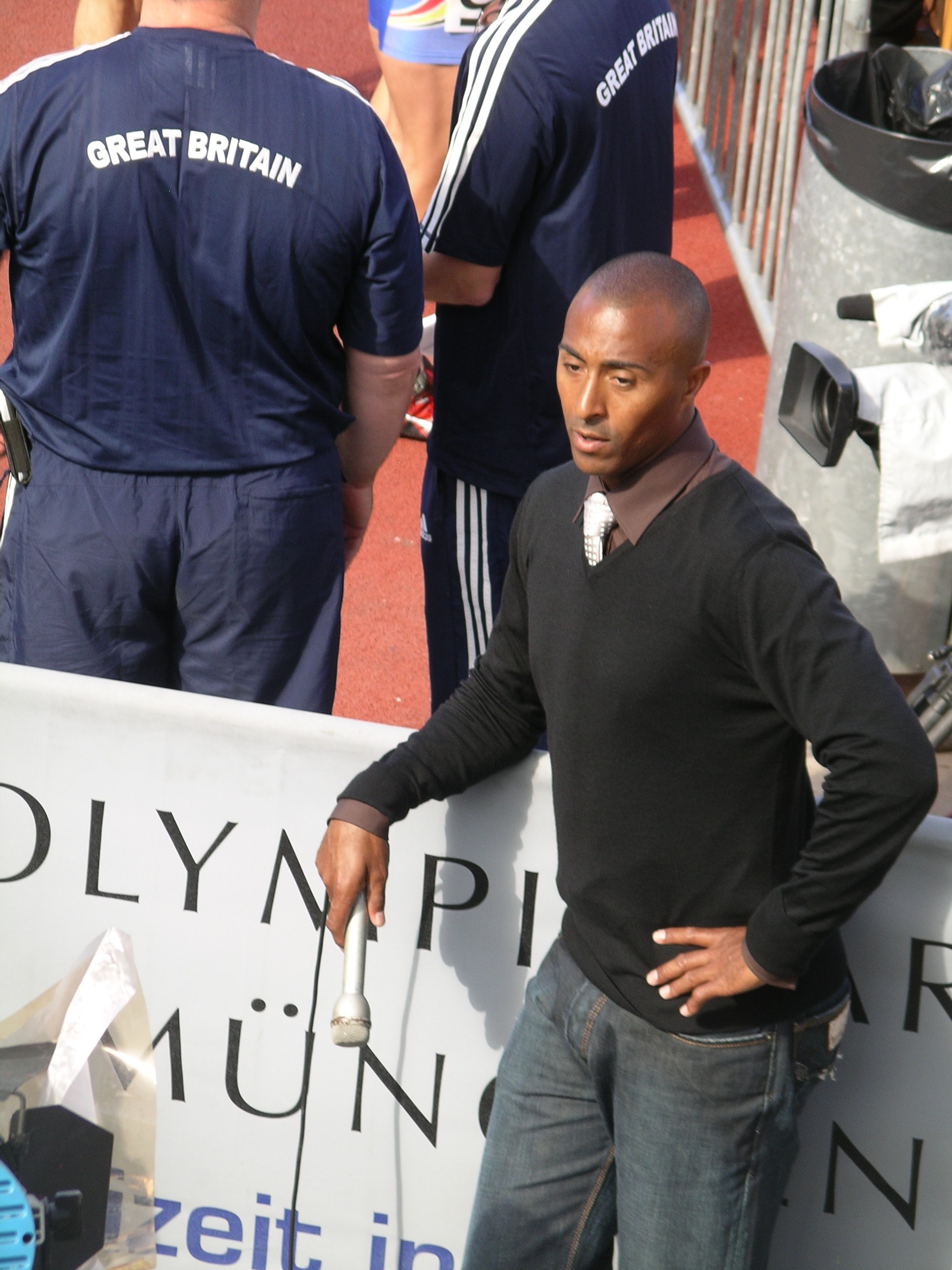 Colin Jackson in Munich at the Olympic Stadium during the SPAR European Cup 2007.